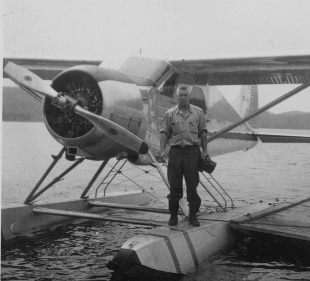 Photo of Frank MacDougall with his Beaver airplane - CF-OBZ - at Smoke Lake.